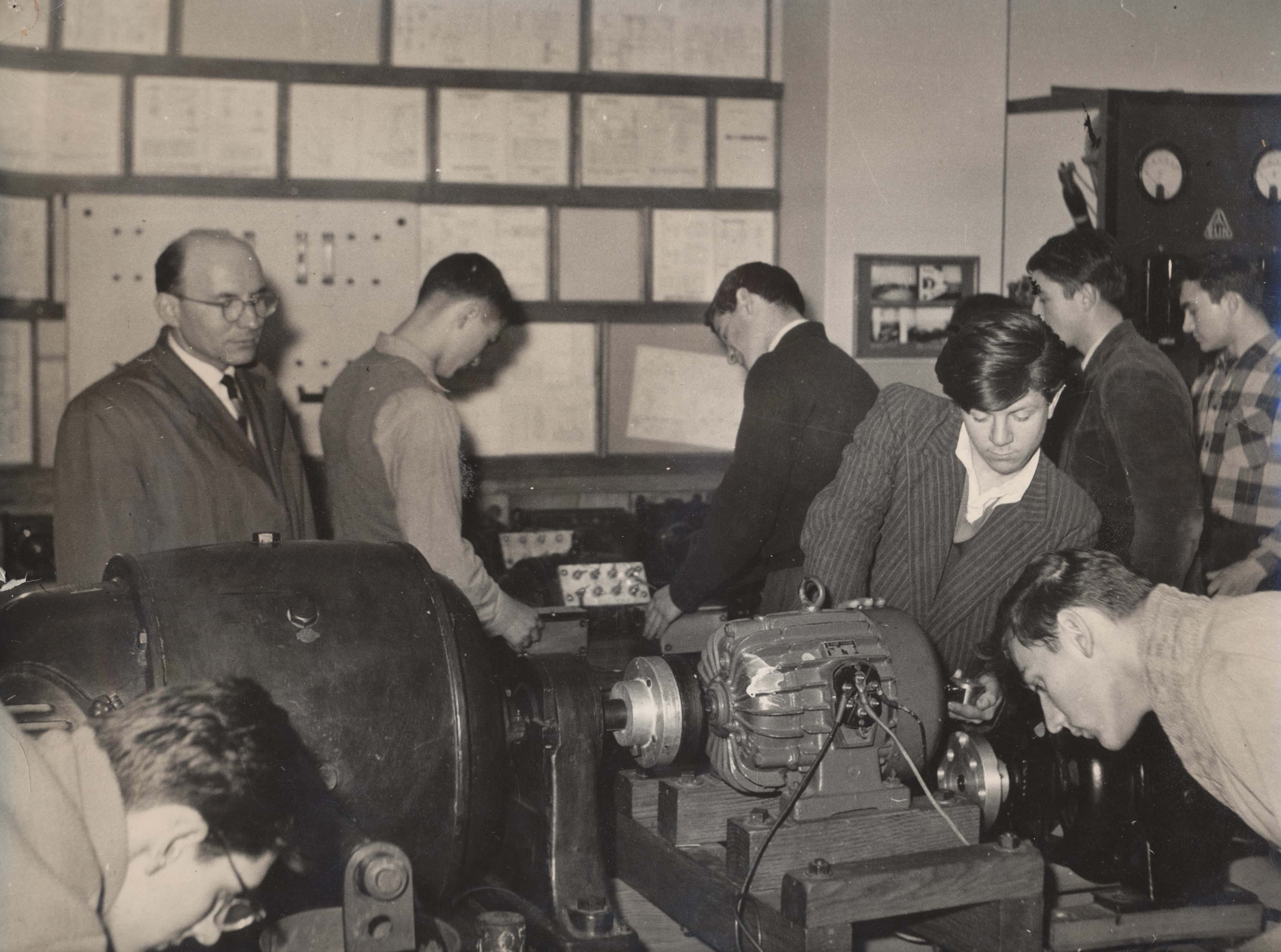 Technical school Pirot Workshop in 1960